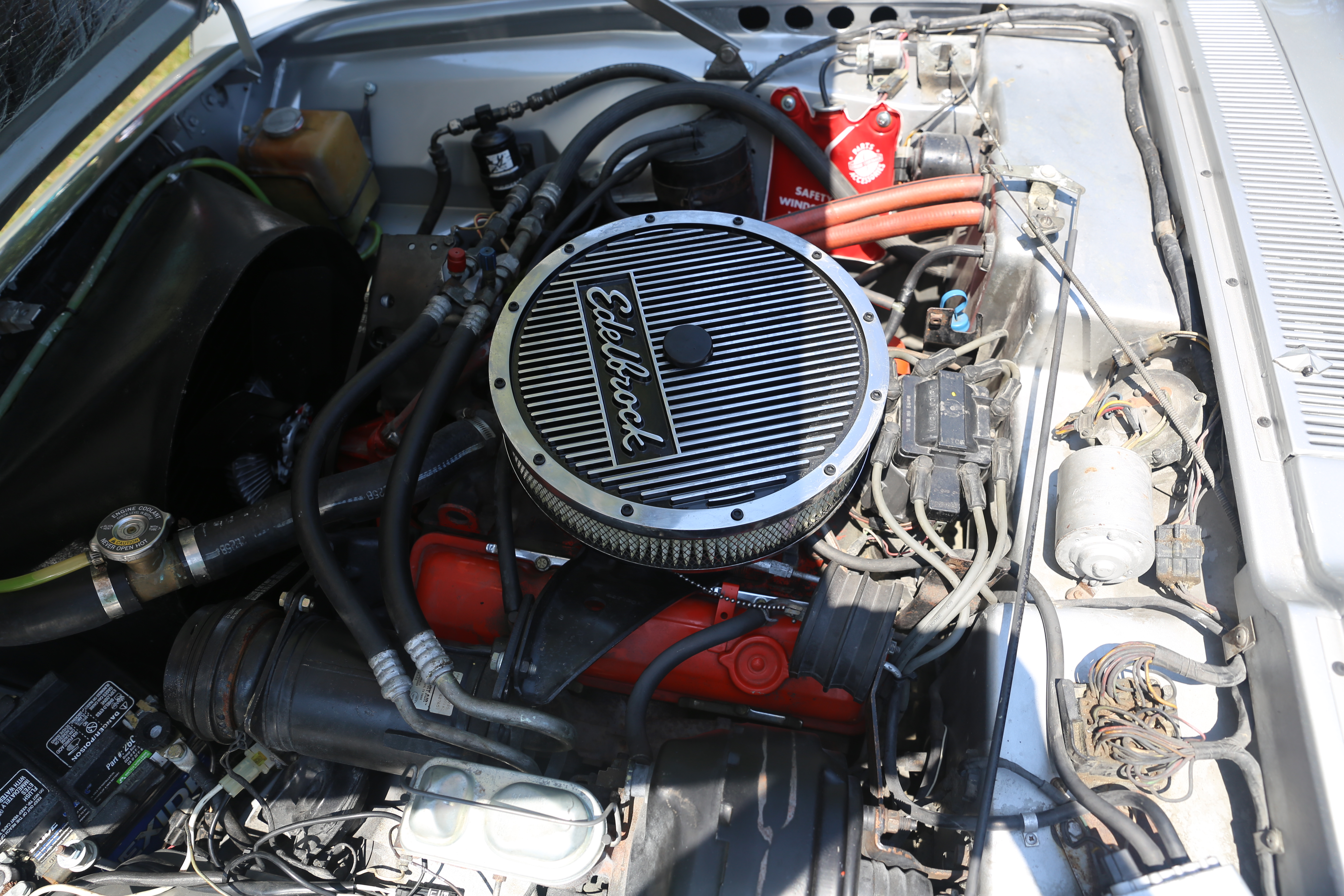 The 400ci Chevrolet Small Block V8 in a 1975 Avanti II, serial RQ-B 2263. Turbo Hydramatic and also "Hi-Energy Ignition System". The 160mph speedo might be optimistic, but the Avanti with the 400 engine must have been fairly fast